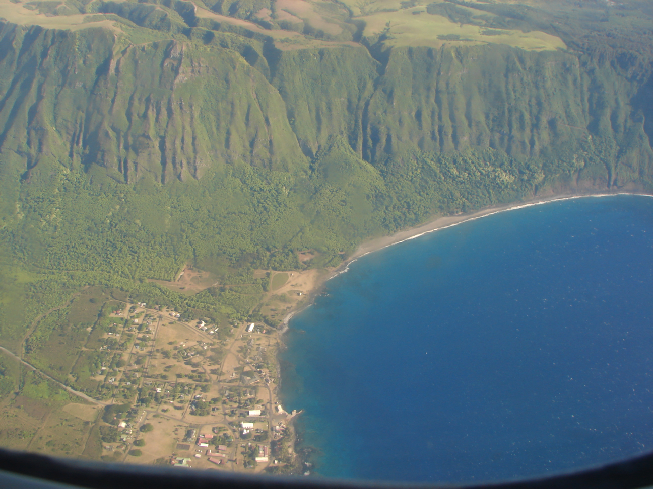 I took this photo of Kalaupapa from an airplane on July 13, 2006.